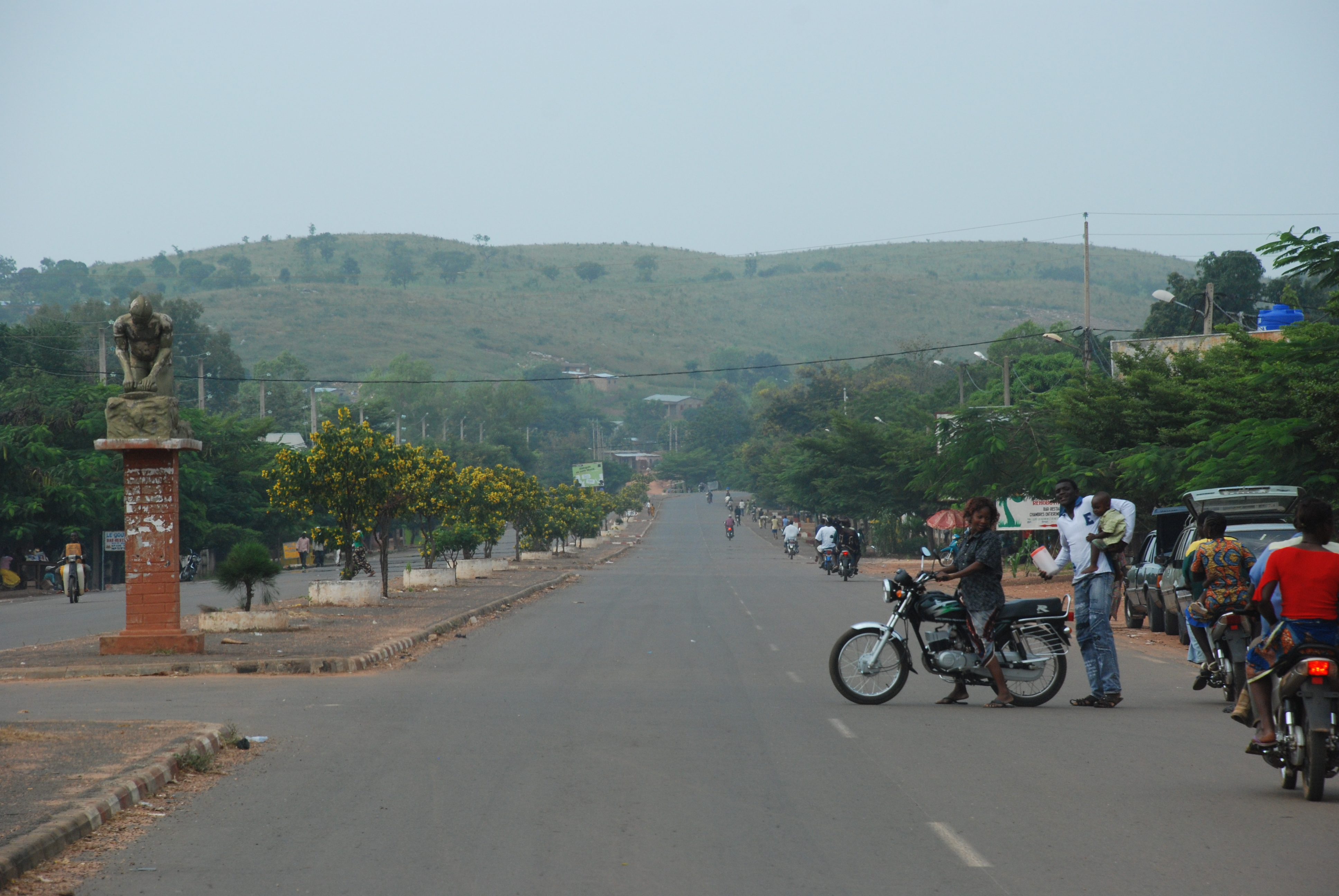 Natitingou - city in northern Benin, close to the Atakora mountains - view of the main street in the direction to Tangieta, Burkina Faso border, Pendjari NP